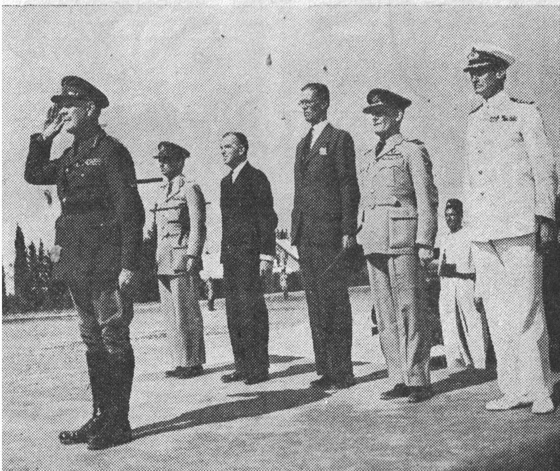 Lord Gort on his first day in office as high commissioner of Palestine